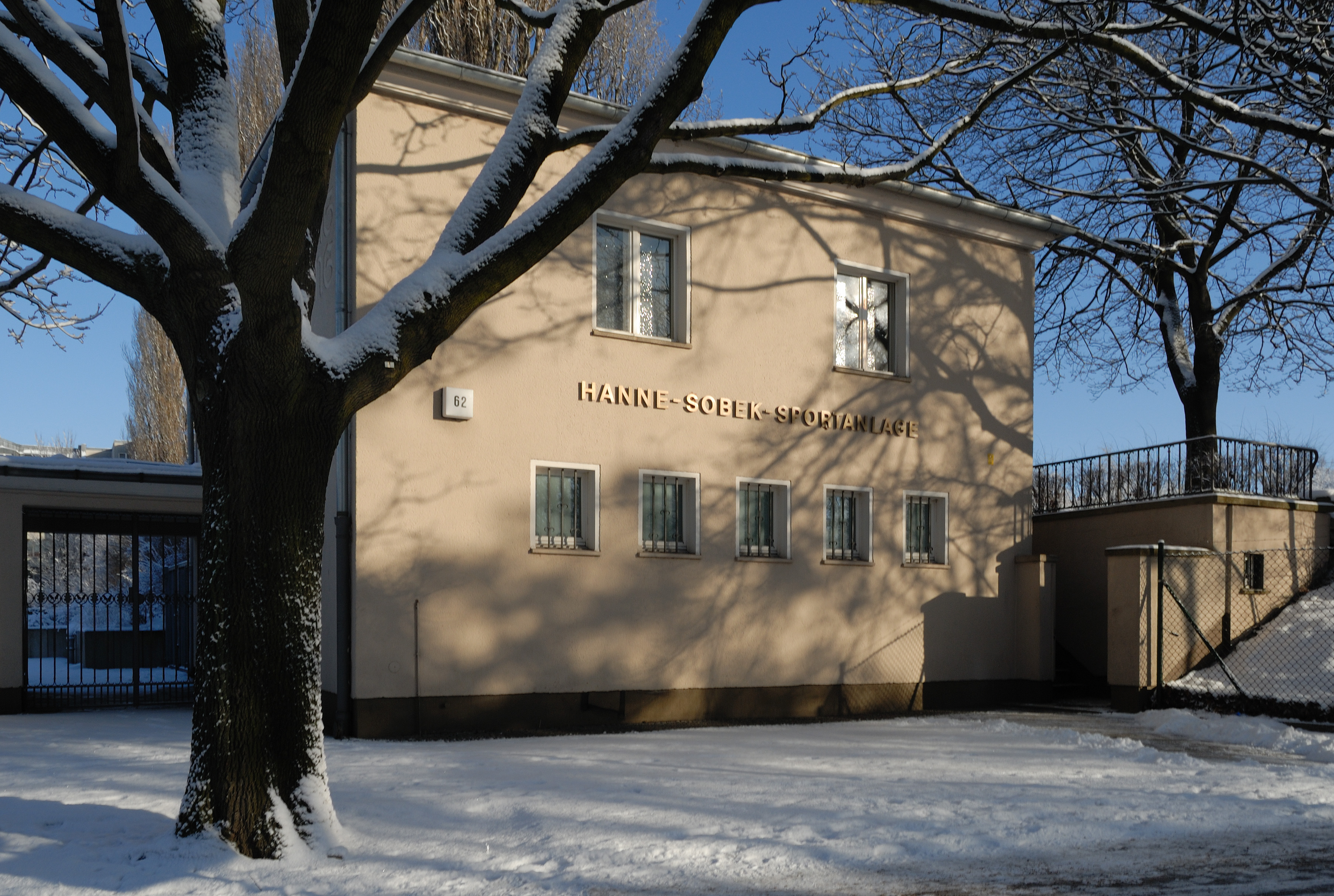 Building of the Hanne Sobek sports facilities in Berlin-Gesundbrunnen. Johannes Sobek was a soccer player and coach.